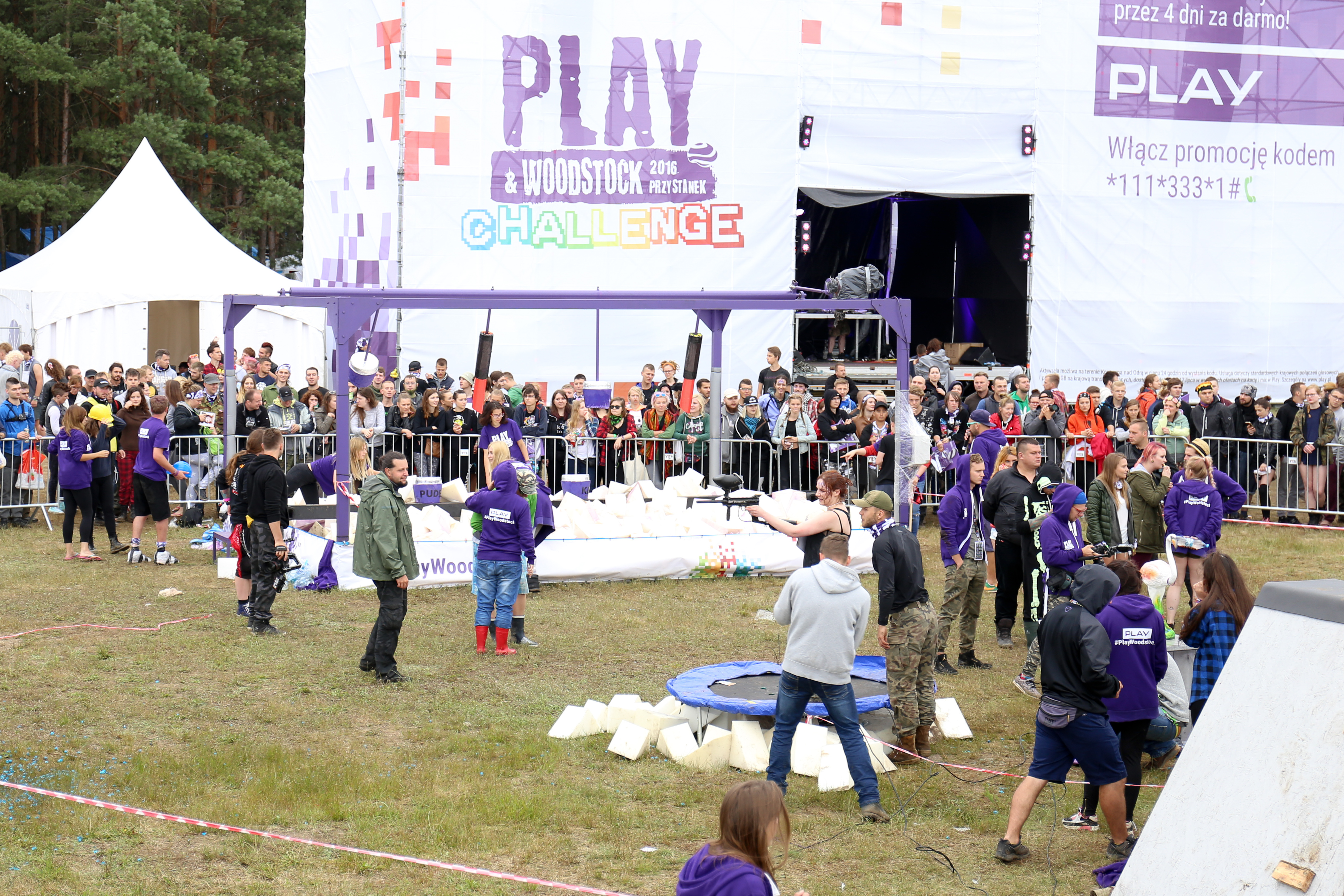 Przystanek Woodstock in 2016.